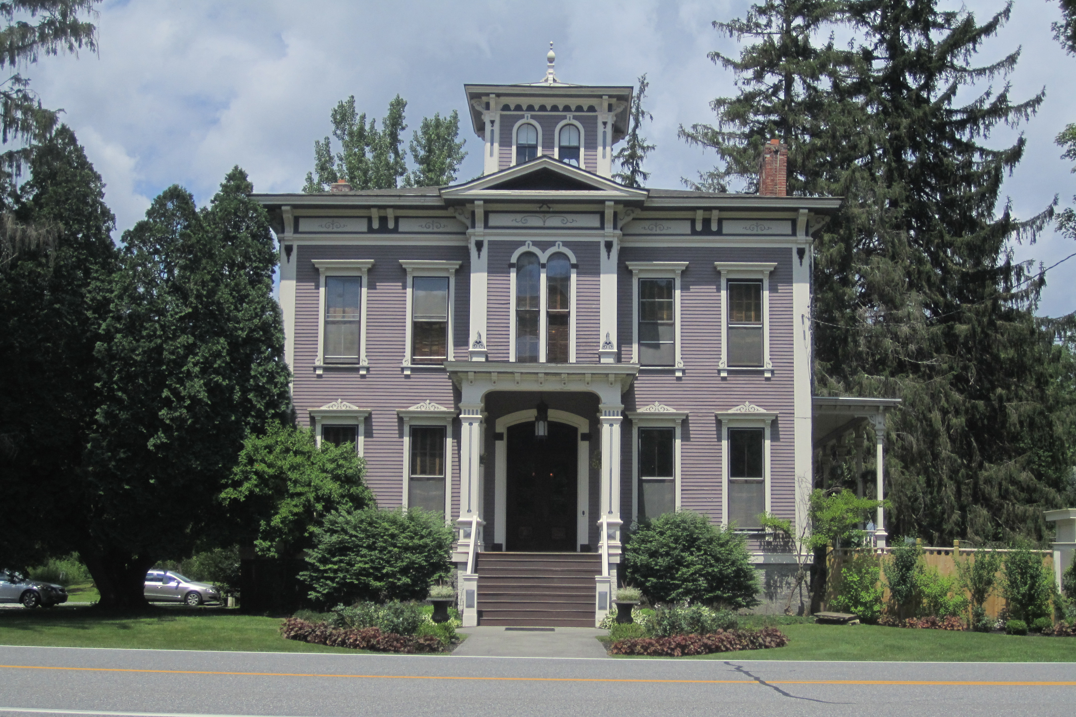 George West House in Rock City Falls, New York, USA.